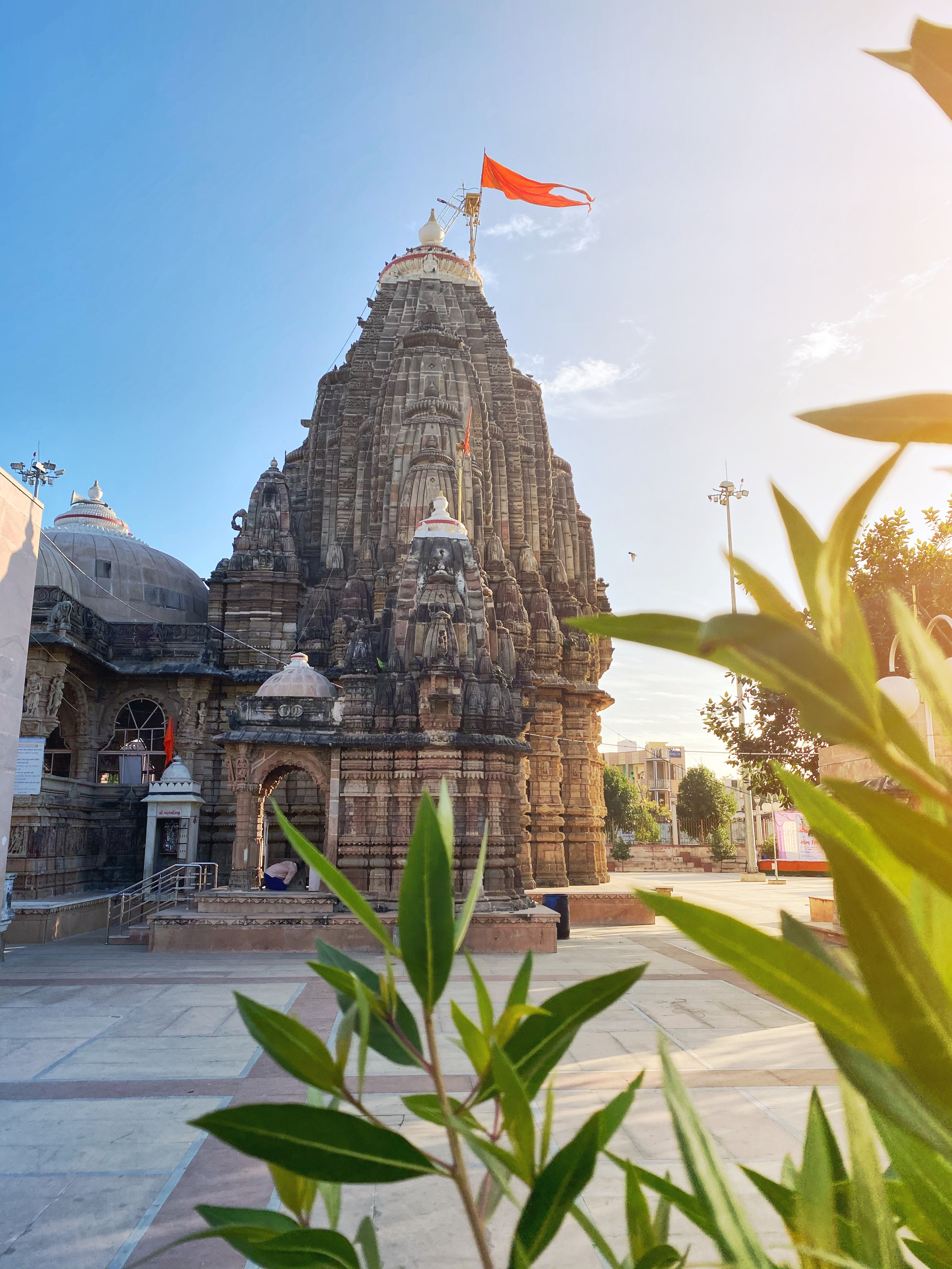 Hatkeshware Mahadev Temple